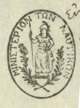 Seal of the Ministerion ton Naftikon (Ministry of the Seas) of the Temporary government of Greece during the revolution in 1824 (from the original document File:Ypourgeio Naftikon Ministerion ton Naftikon 1824.jpg)